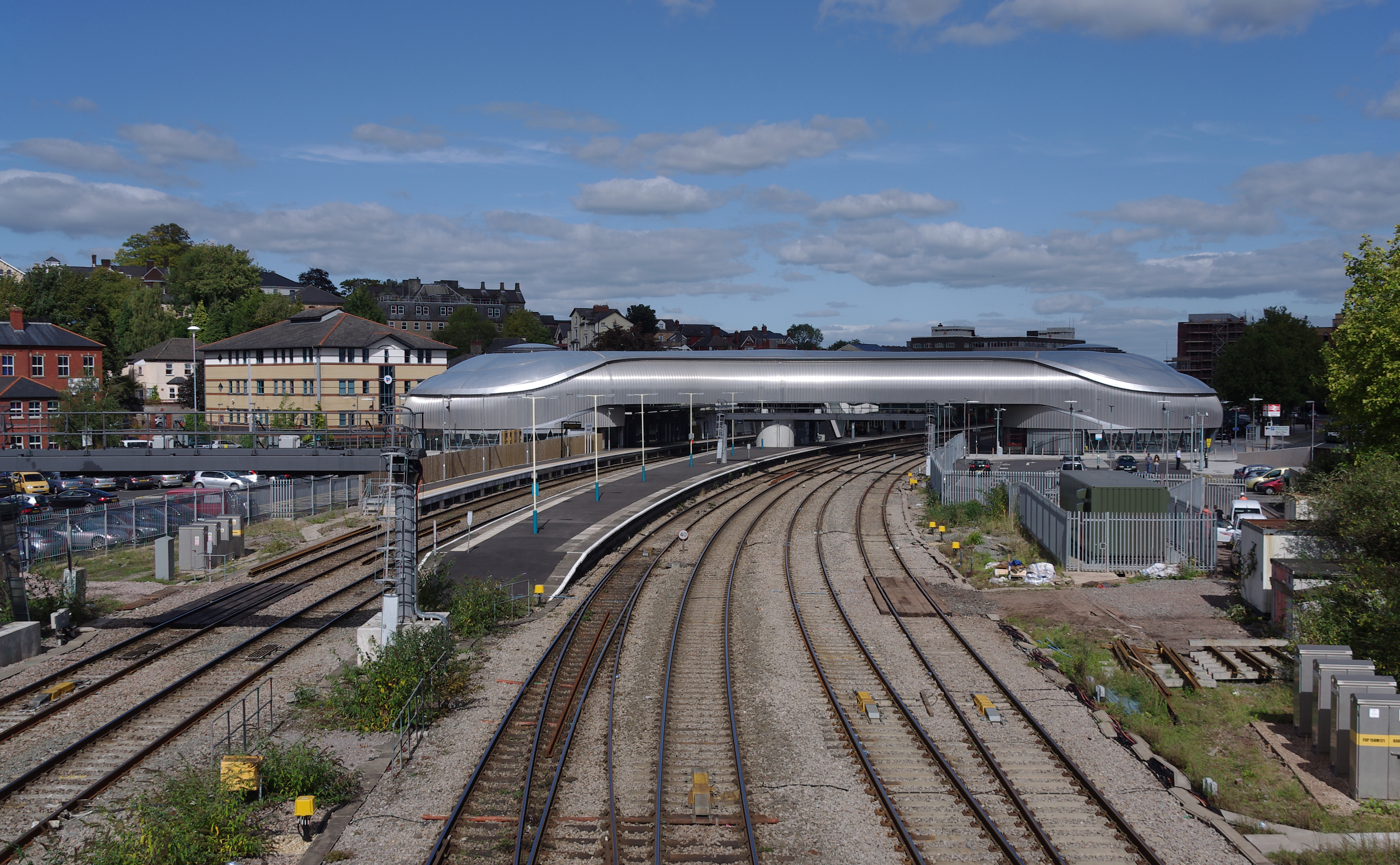 Newport railway station viewed from the Clytha Road bridge.